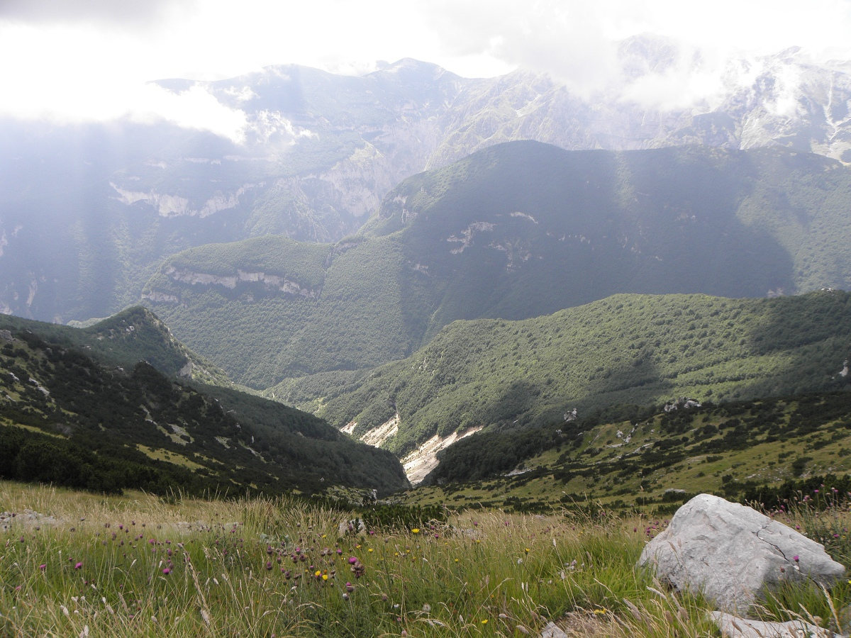 Blockhaus (Abruzzo) Majella National Park